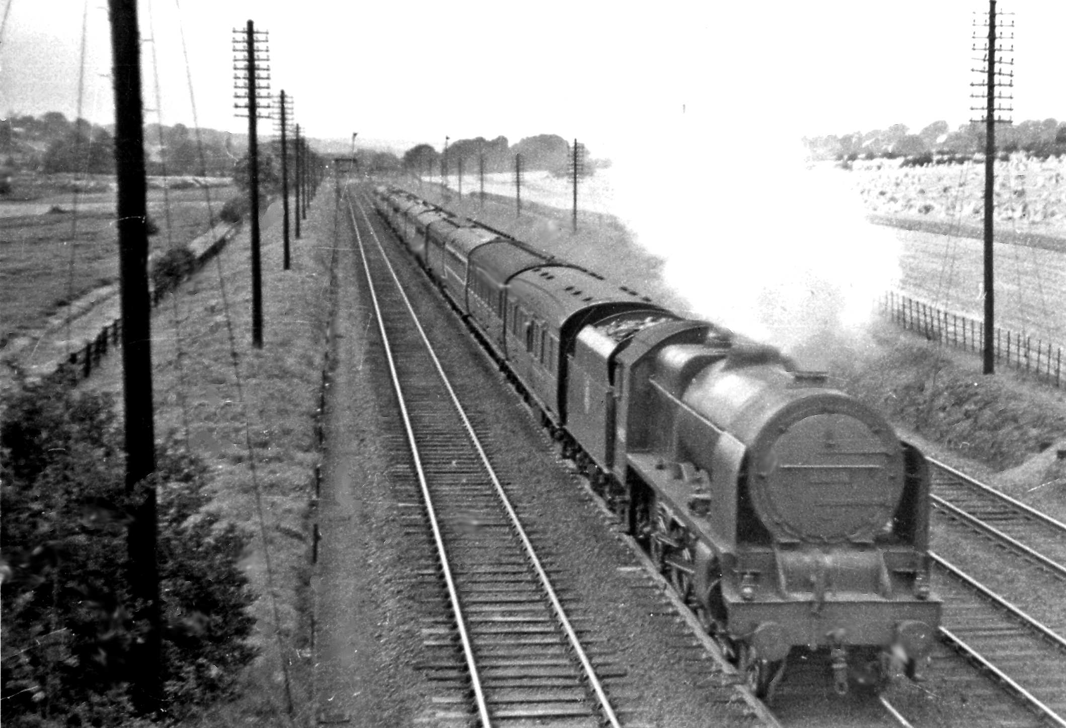 UP WCML express at Bourne End, between Hemel Hempstead and Berkhamsted. View NW, towards Bletchley and the North: WCML. The 11.10 Liverpool Lime Stree - Euston has Fowler' Royal Scot (not yet rebuilt) No. 46158 'The Loyal Regiment' (built 8/30, rebuilt 9/52, withdrawn 10/63). The Grand Union Canal runs parallel on the left.